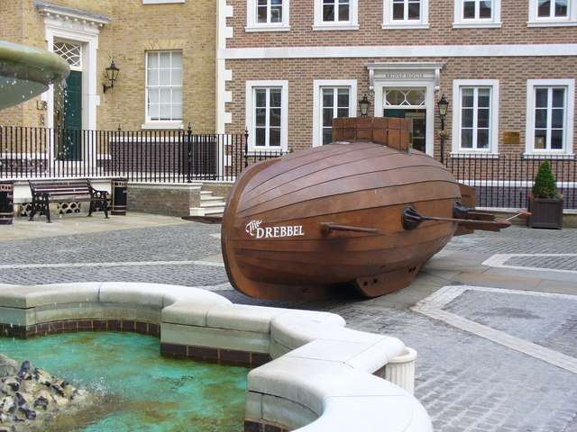 The Drebbel Reconstruction of a wooden submarine which was oar-powered! This reconstruction proved itself in the Thames. It now sits in an enclosed yard by Richmond bridge.